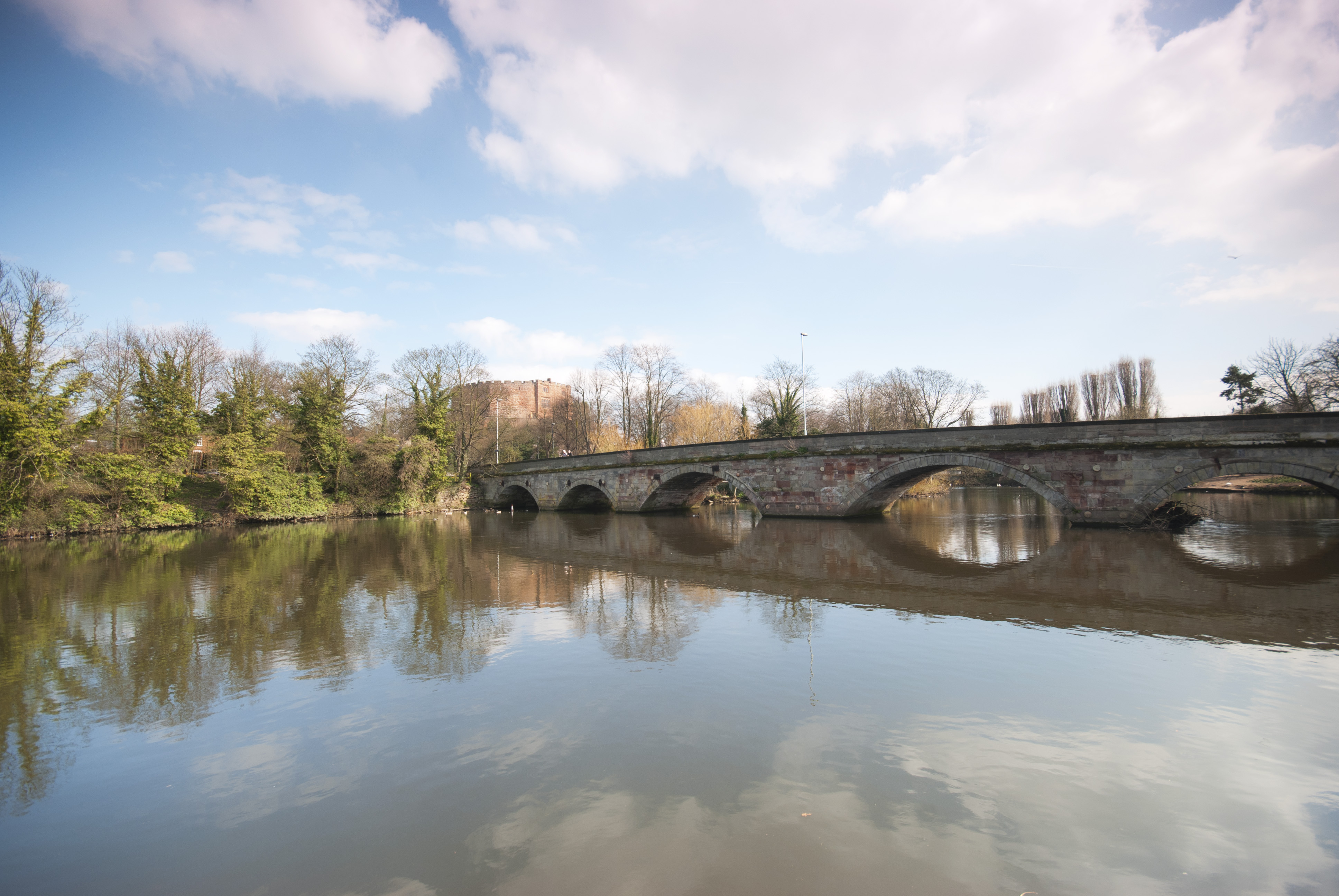 The River Tame at Tamworth. Viewed from the west with Lady Bridge in the foreground and Tamworth Castle on the hill in the background.